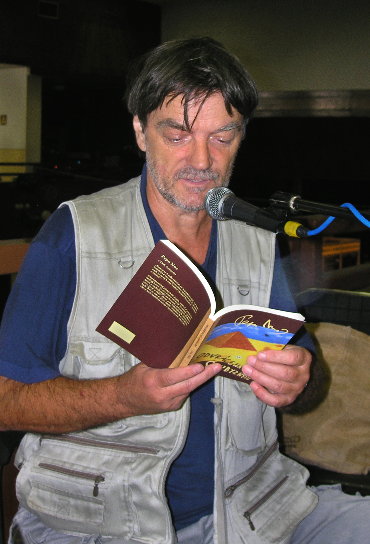 Pepa Nos, Czech folk singer, at the Autumn Book Fair in Havlíčkův Brod, Czech Republic